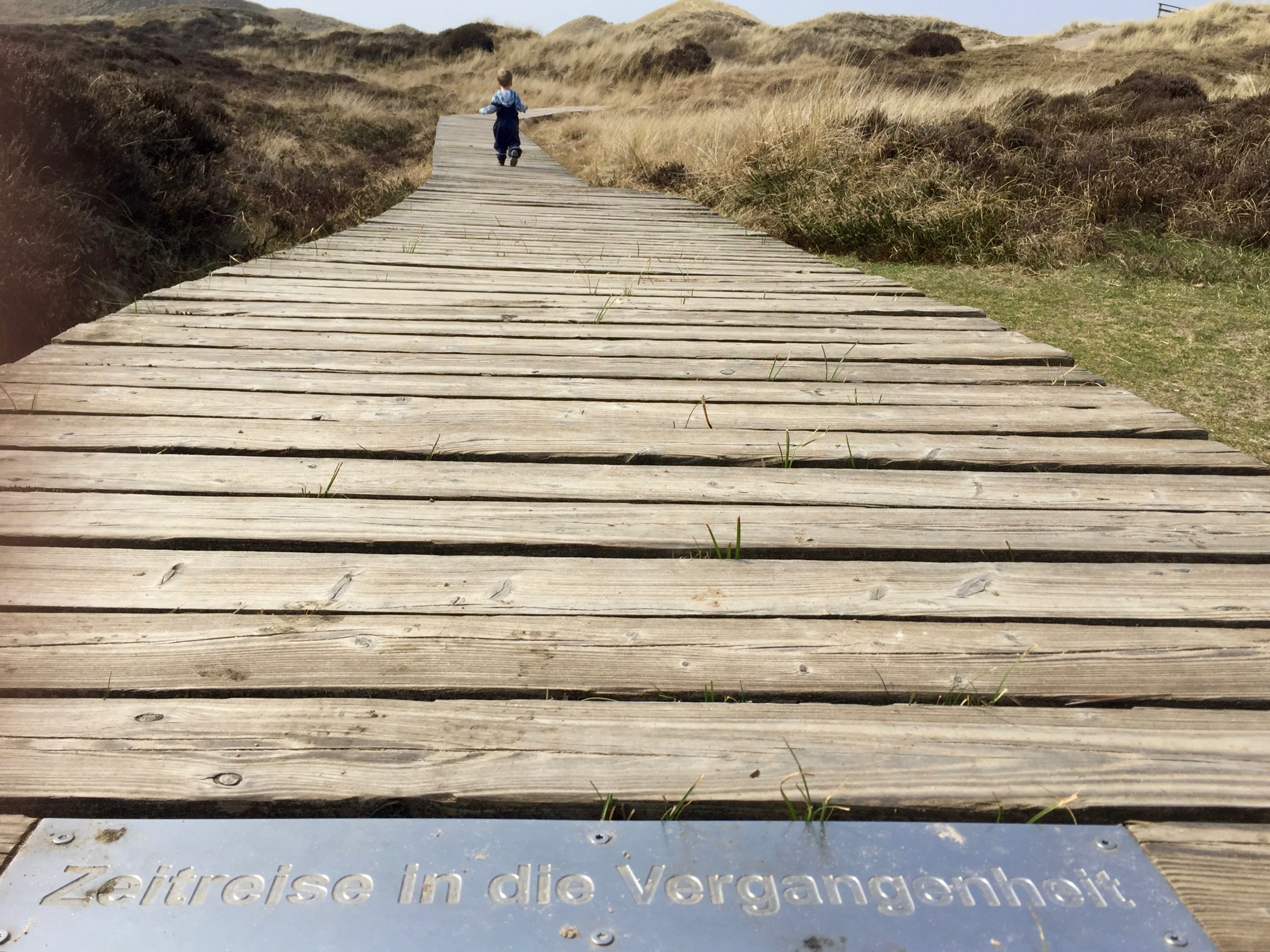 The making of this document was supported by the Community-Budget of Wikimedia Germany. Archäologisches Areal an der An der Vogelkoje Meeram